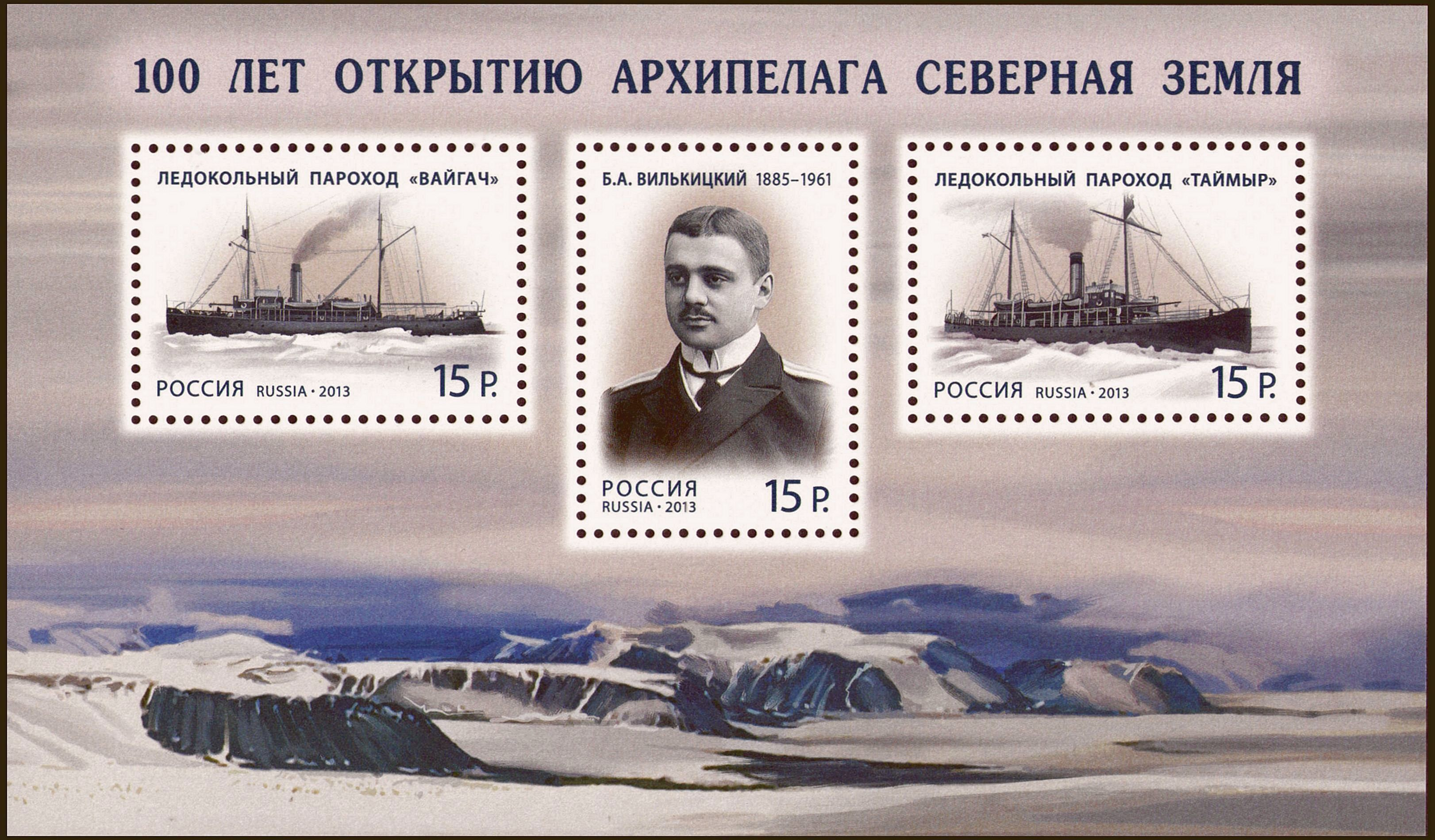 100th anniversary of the discovery of the archipelago Severnaya Zemlya.The miniature sheet of Russia, (3 stamps×15 rubles), 4 September 2013, PTC Marka Catalogue No 1732—1734, Michel No 1963—1965 (Block 189). Offset printing, silver paste. Perforation: frame 12×12½ and 12½×12. Size of the miniature sheet: 136×80 mm. Size of single stamps: 37×26 mm (No 1732, 1734), 26×37 mm (No 1733). Print run: 80,000 miniature sheets.The archipelago Severnaya Zemlya was discovered in 1913 by the Arctic Ocean Hydrographic Expedition led by Boris Vilkitsky (1885–1961).The stamps feature the ships of the Arctic Ocean Hydrographic Expedition, the icebreaking steamers Vaygach (No 1732, on the left) and Taymyr (No 1734, on the right); the portrait of the head of the expedition, the Russian hydrographer and surveyor Boris Vilkitsky (No 1733, the central stamp).The landscape of Severnaya Zemlya is depicted on the margins of the miniature sheet.